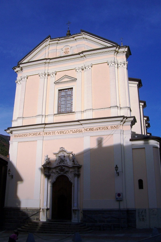 Parish church of the Assuption of Mary. Corteno Golgi, Val Camonica